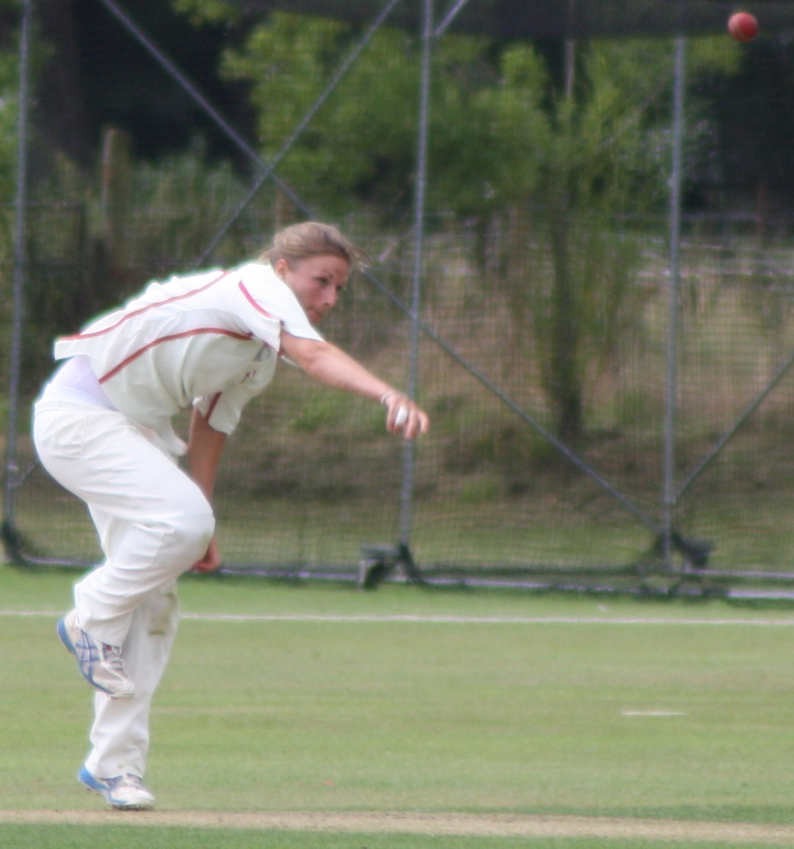 Steph Davies bowling during the LV County Championship match between Somerset and Nottinghamshire at North Perrott Cricket Club Ground in Somerset.